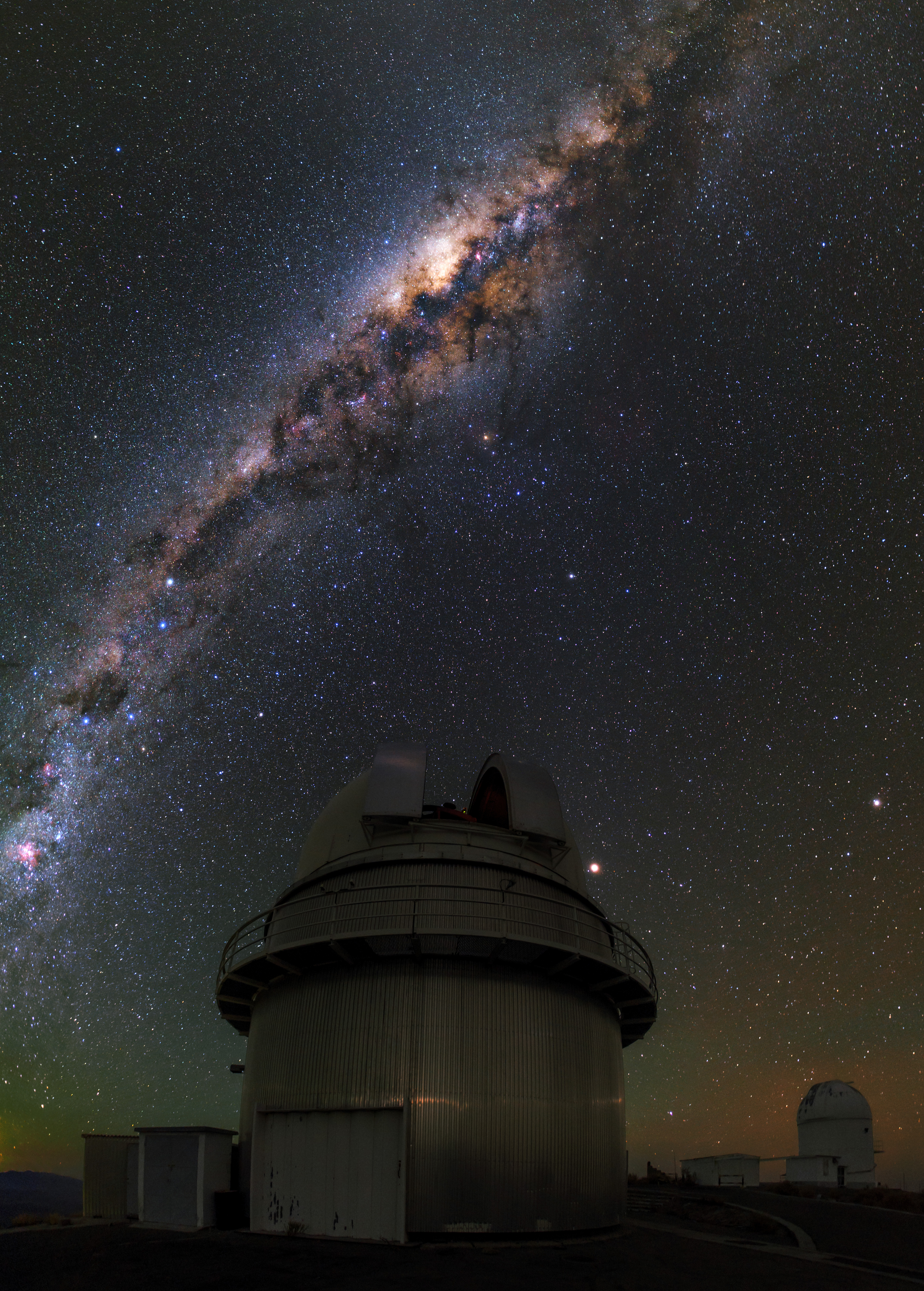 This image shows the dome of the Danish 1.54-metre telescope that has been in operation at La Silla Observatory since 1979. The telescope has been involved in several breakthrough astronomical observations including the discovery of merging neutron stars as the possible origin of gamma-ray bursts (eso0533) and finding an exoplanet only five times more massive than the Earth (eso0603). Above the telescope, our home galaxy the Milky Way stretches across the sky with the bright central bulge aligned with the dome of the telescope. In the background to the right you can spot the dome which once held the MarLy 1-metre telescope.. The telescope saw first light in 1996 and was decommissioned in 2009. Before the MarLy, this dome hosted the 40-centimetre Grand Prisme Objectif, a photographic astrograph. In front of the MarLy dome, the enclosure of the small Marseille 0.36-metre telecope is visible. Links Babak’s image archive at ESO Babak’s homepage TWAN Gallery Babak’s Facebook Page